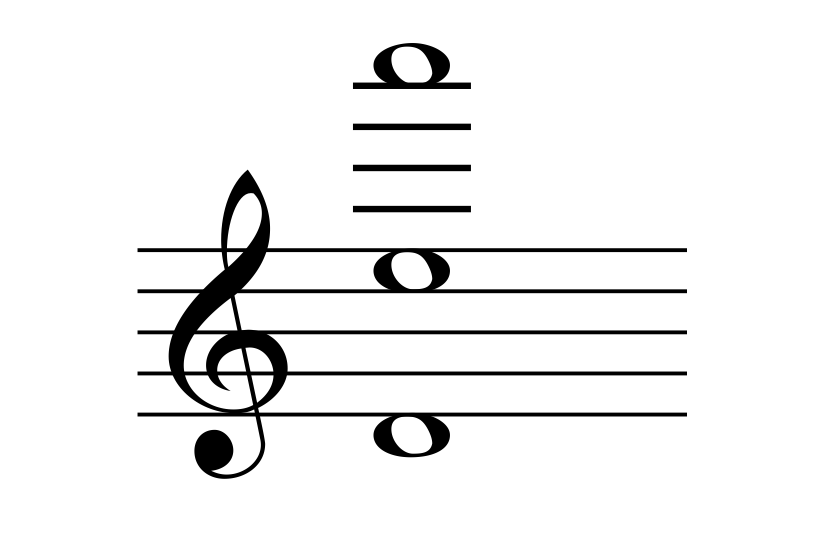 The opening chord for all movements in's.